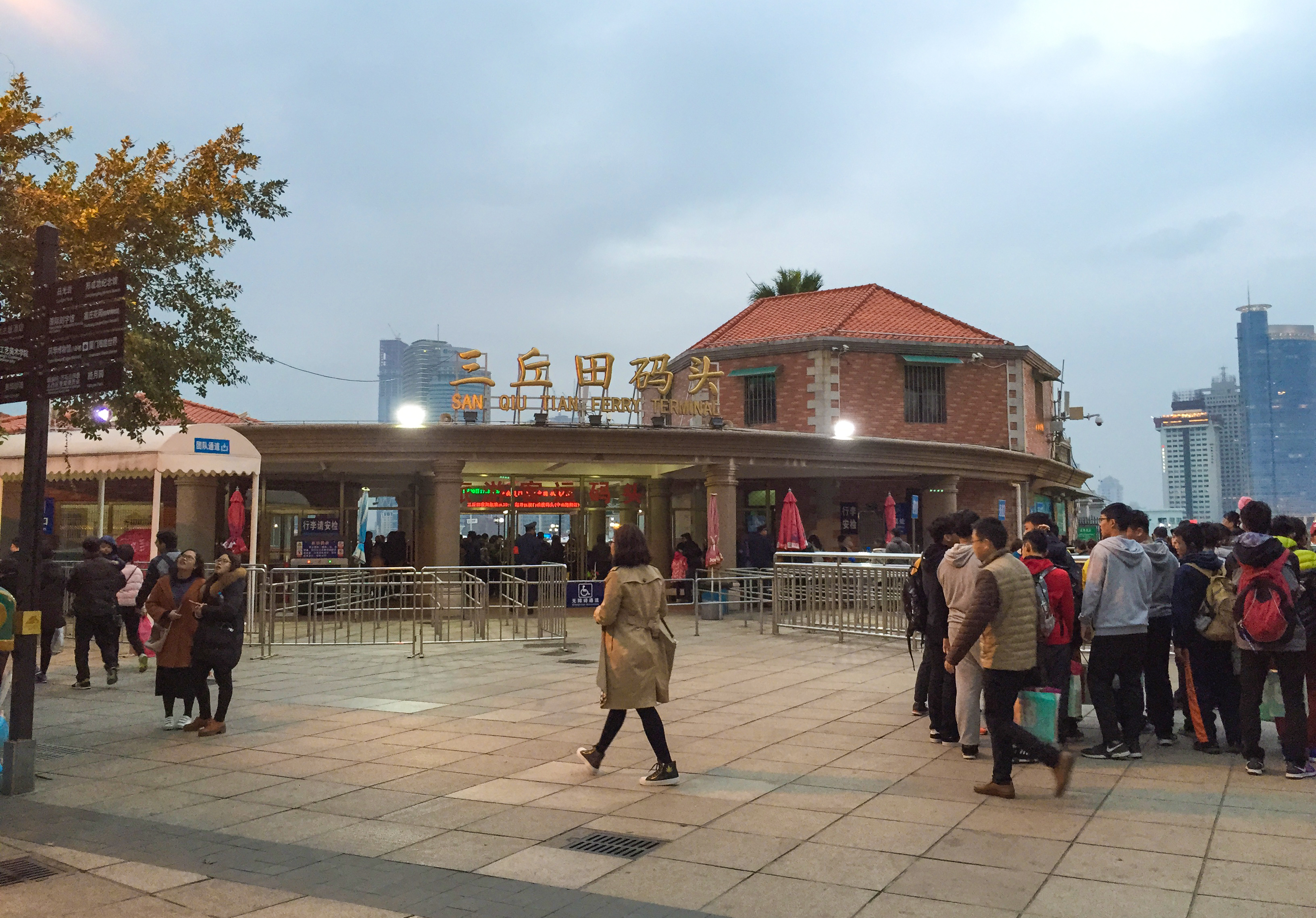 After 17:40, the ferry stops service at Zhongshan Rd Ferry Pier.